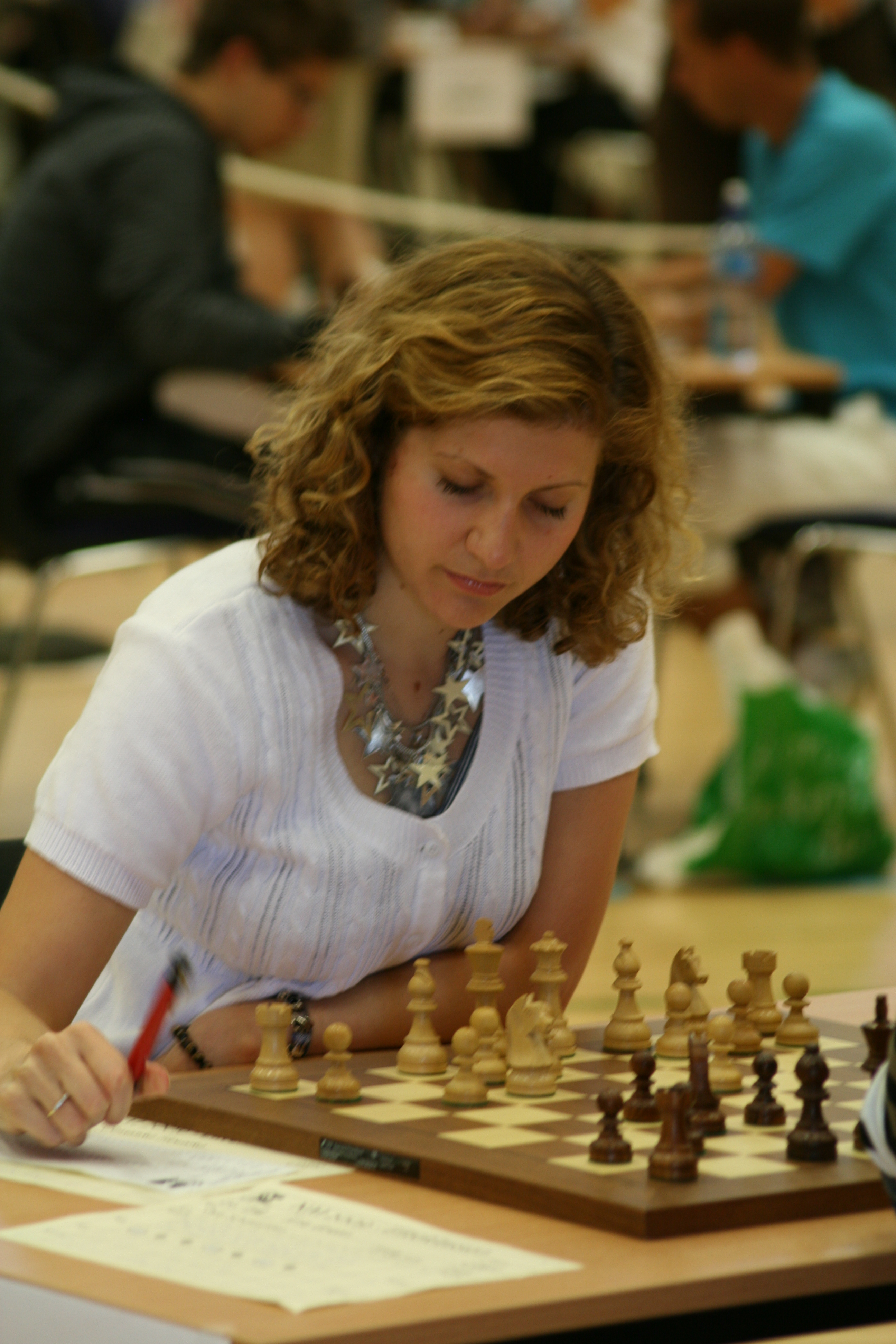 Jovanka Houska at the Norwegian Chess Championship in Bergen, July 2009